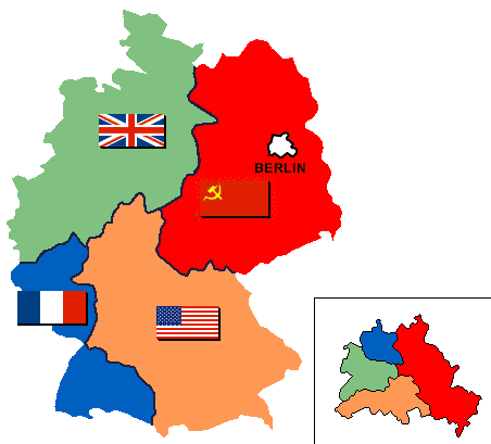 Map of the Allied occupation zones in Germany and Berlin (inset)